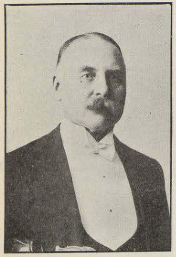 Olof Bull (1852-1933), Swedish-born U.S. musician (violinist) and music teacher.